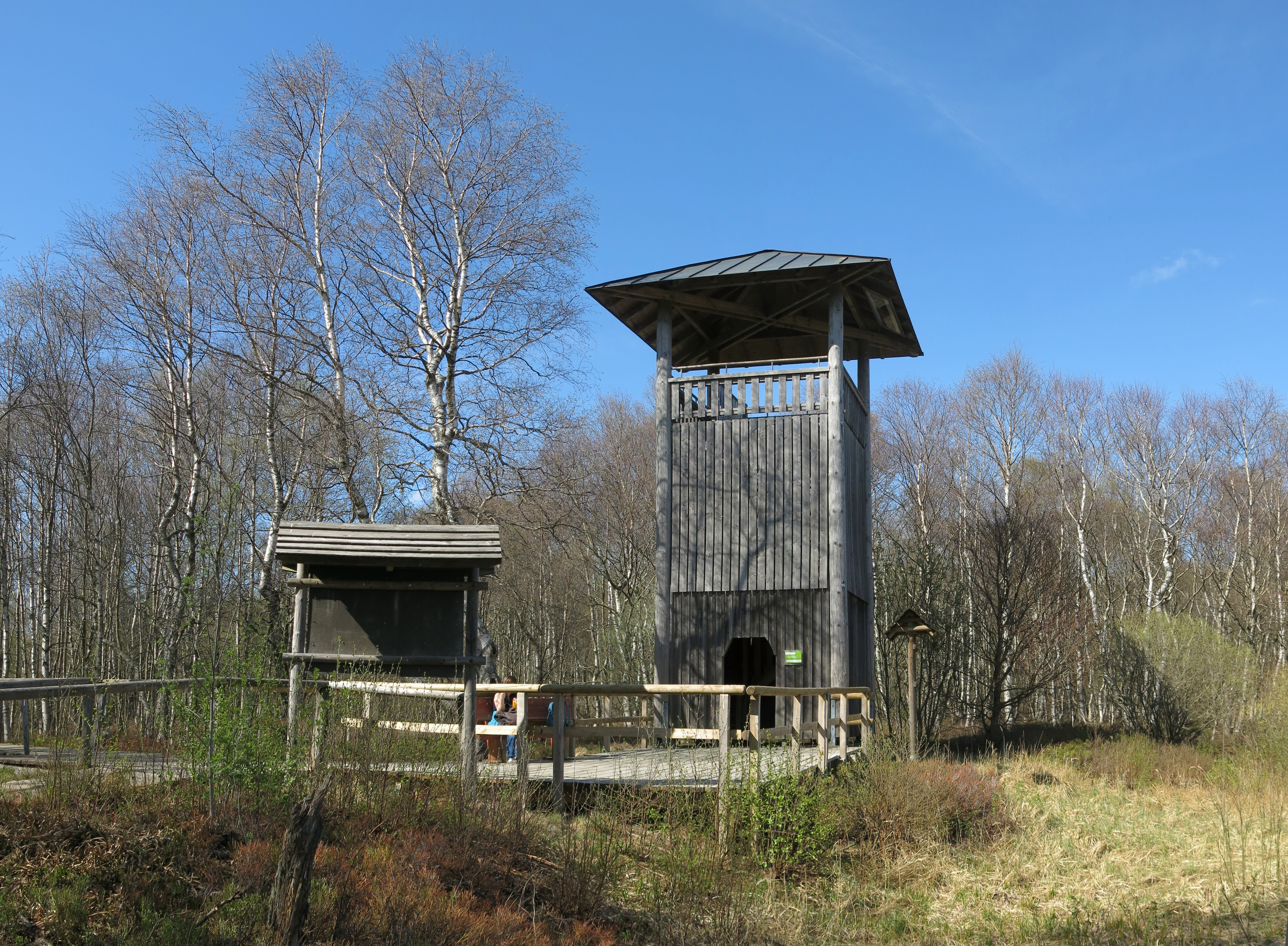 Observation tower in the Red Moor (Rhön)